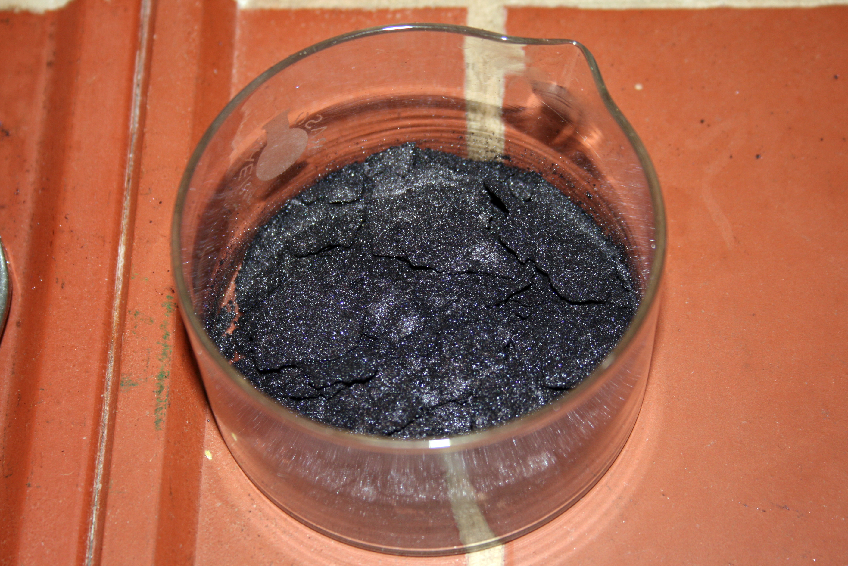 solid hemin extracted from the blood of a cattle